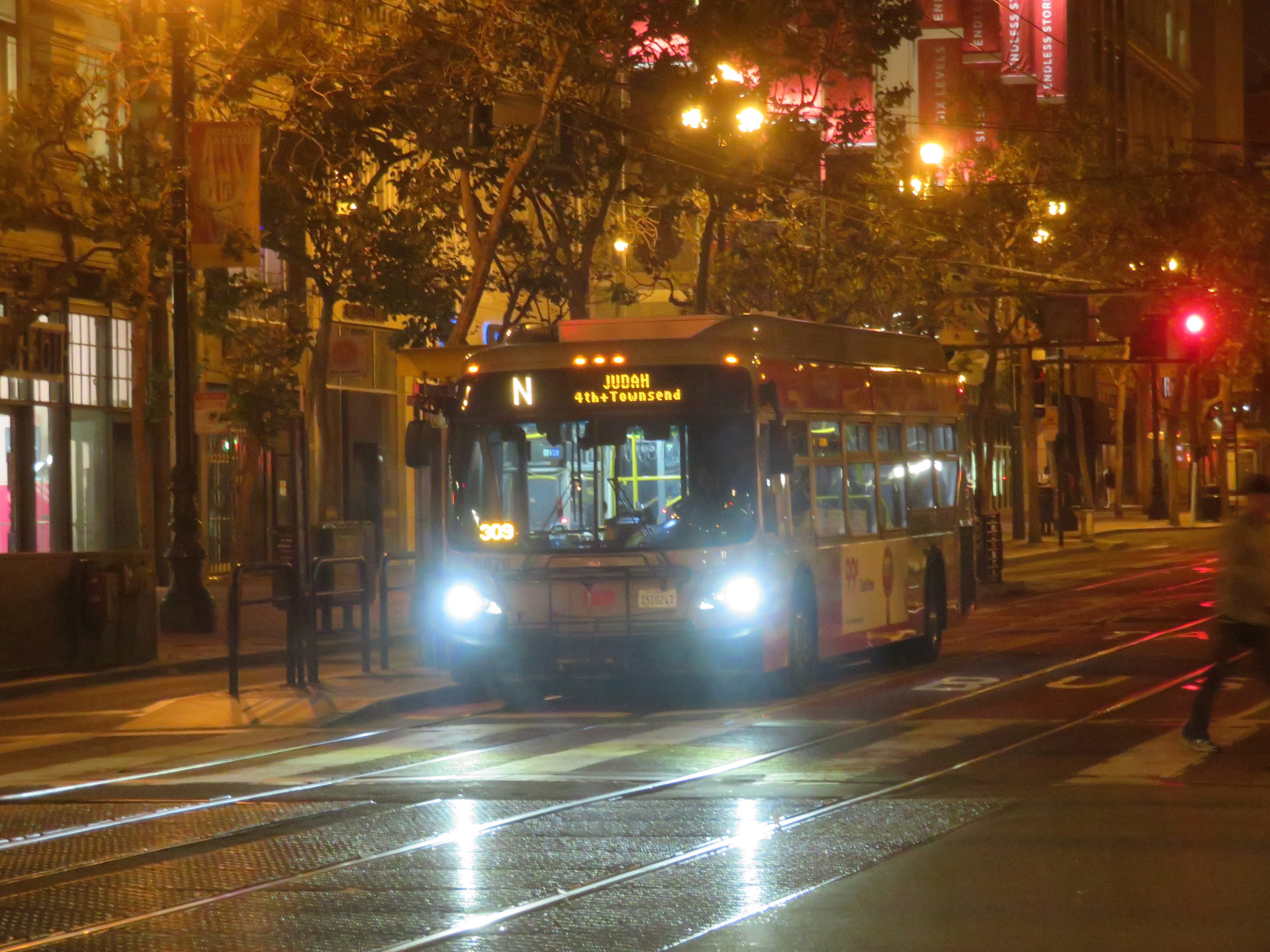 An inbound N Owl bus at Market and 5th Street in August 2018